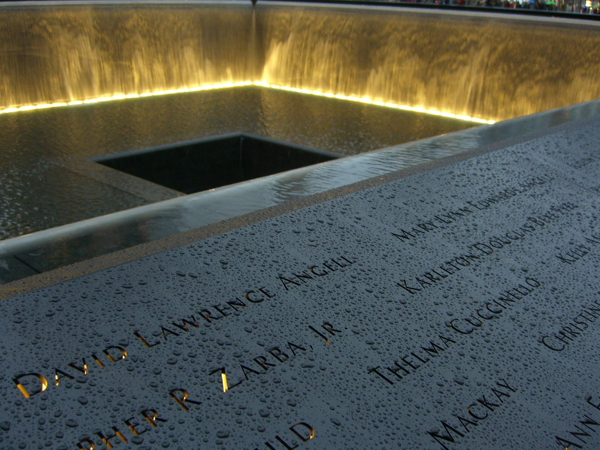 The names of husband and wife 9/11 victims David Angell and Mary Lynn Edwards Angell inscribed in bronze, along with others on panel N-1 of the North Pool of the National September 11 Memorial & Museum in Manhattan, as seen on December 6, 2011. This photo was created by Luigi Novi. If you have any questions, you can contact me by sending me an email or User talk:Nightscream